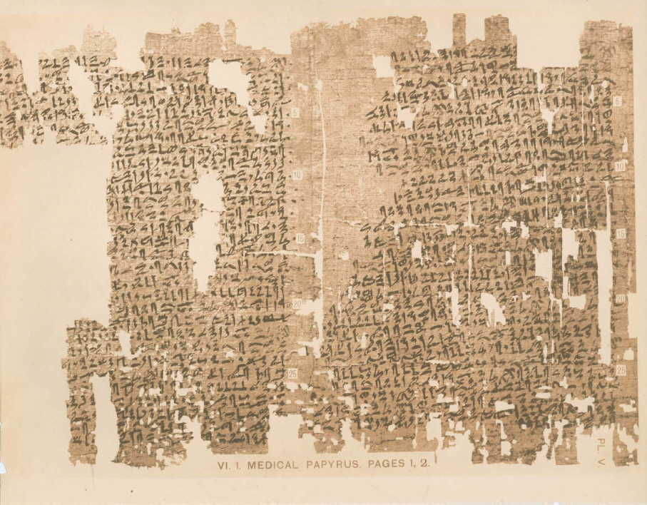 Papyrus Kahun VI. 1, pages 1 and 2; medical papyrus 12th Dynasty